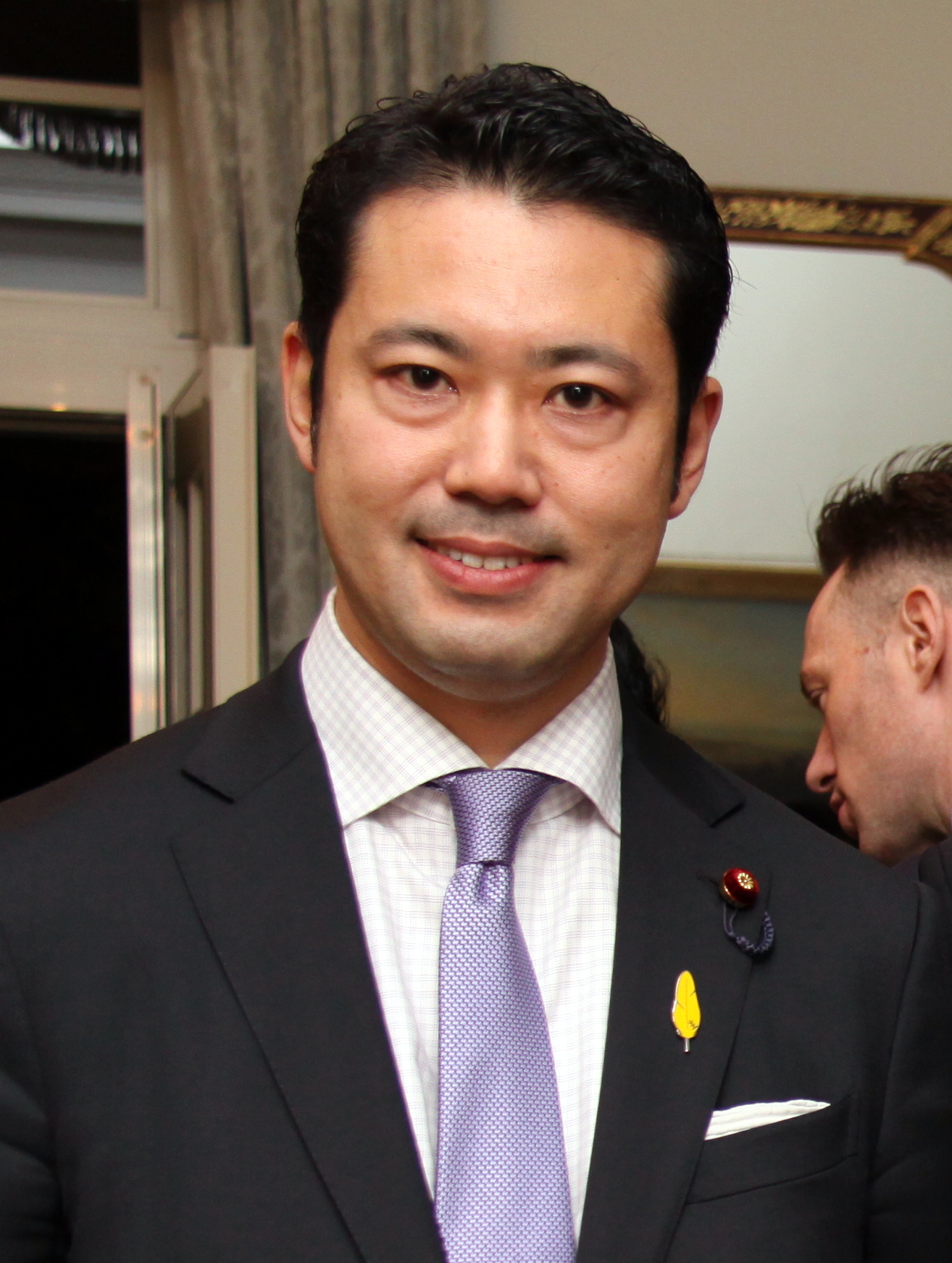 Yōko Kamikawa, Minister of Justice, and Taku Ōtsuka, Parliamentary Secretary for Justice, met Tim Hitchens, Ambassador to Japan, at the Embassy of the United Kingdom in Tokyo on April 1, 2015.